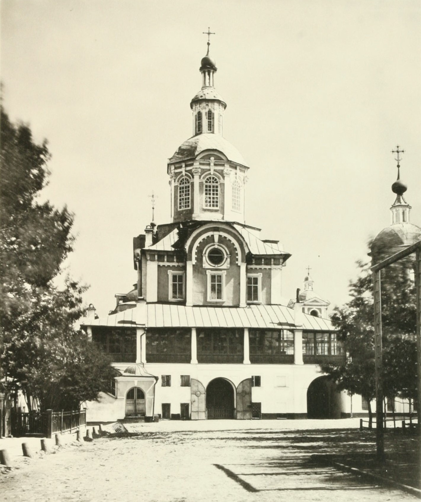 Zaikonospassky monastery in Kitai-gorod, Moscow.